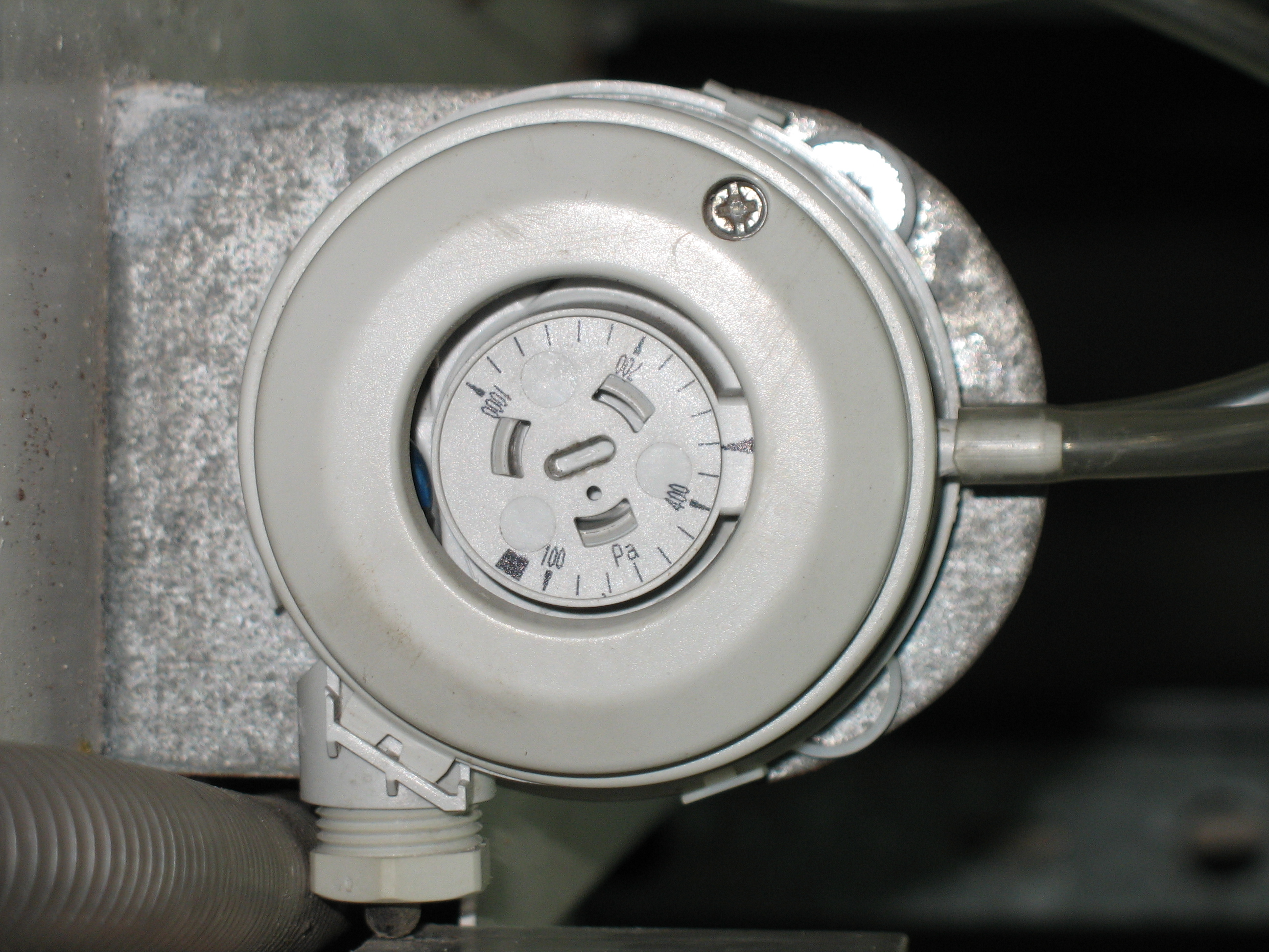 Pneumatic pressure switch Huba Control typ 604